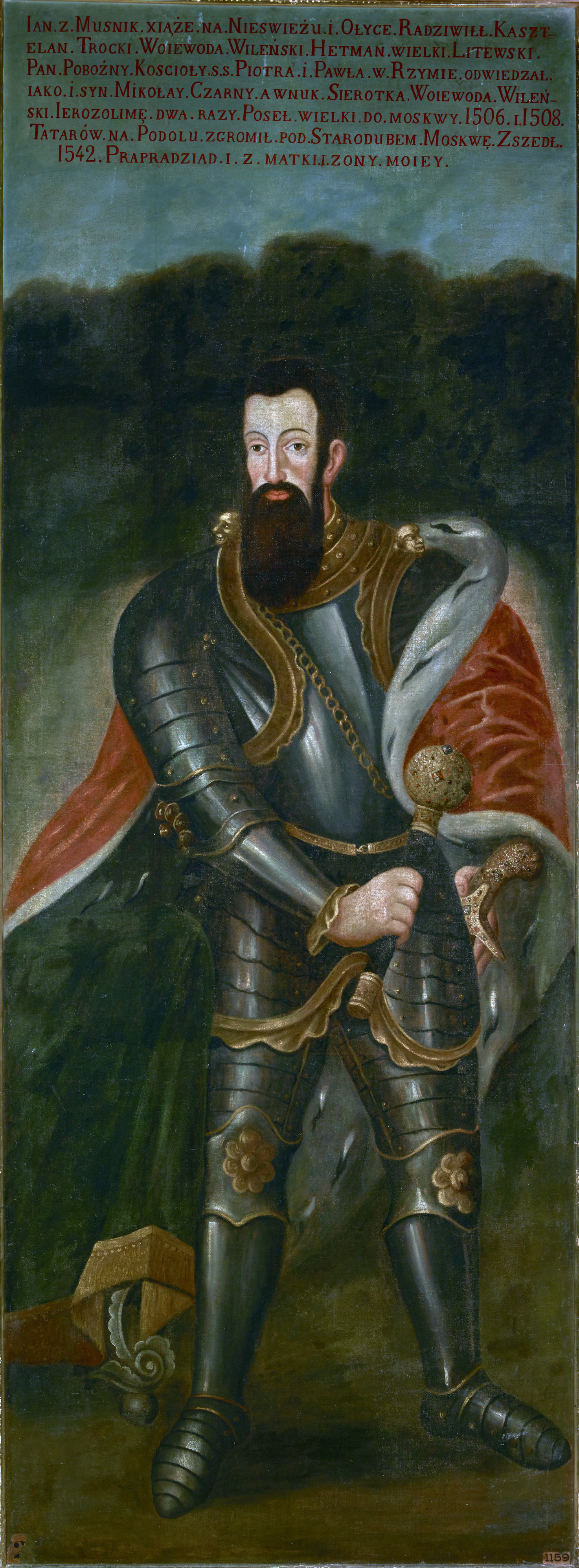 In Polish